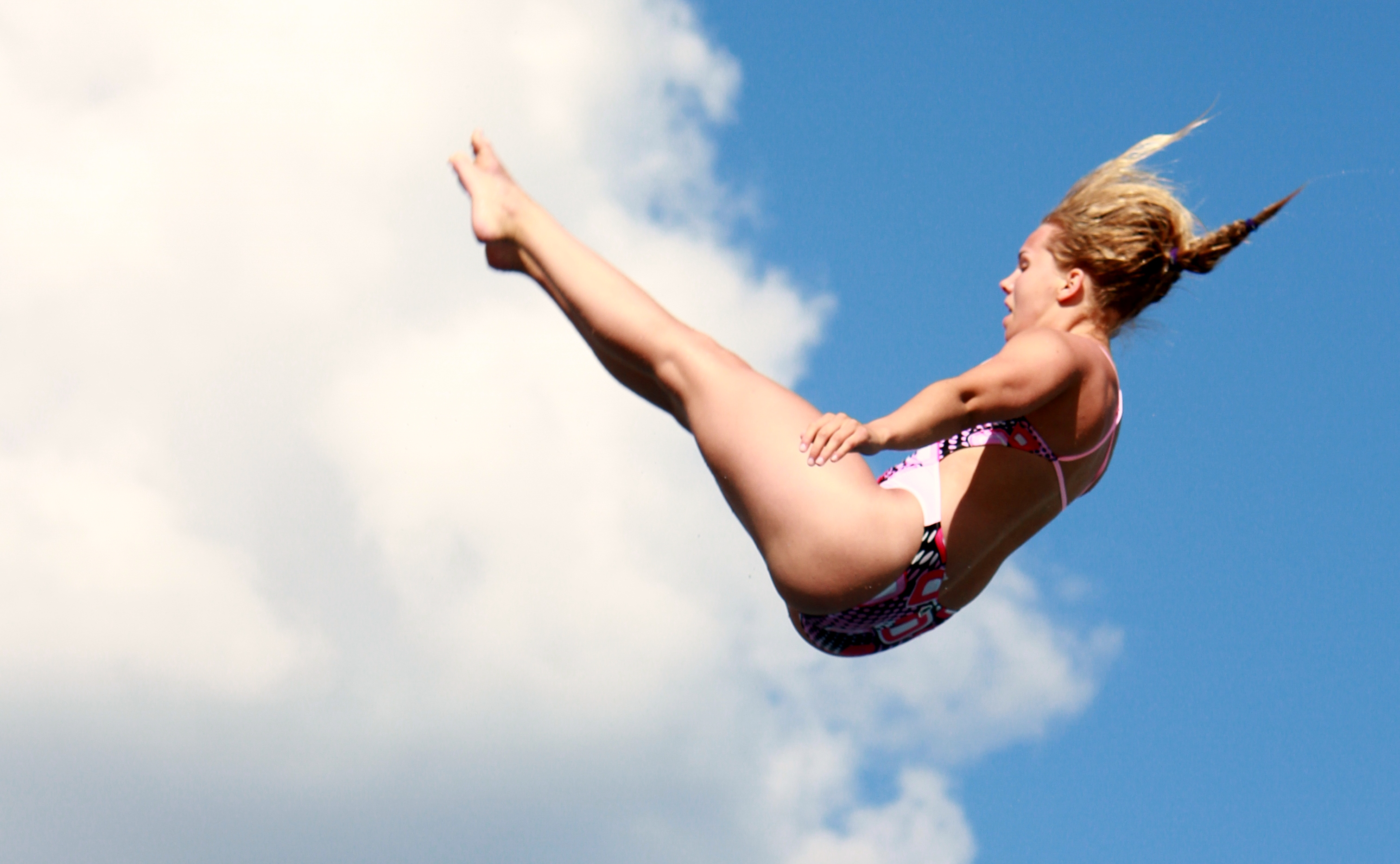 Girl diver at International Yout Dive Meeting Graz 2013